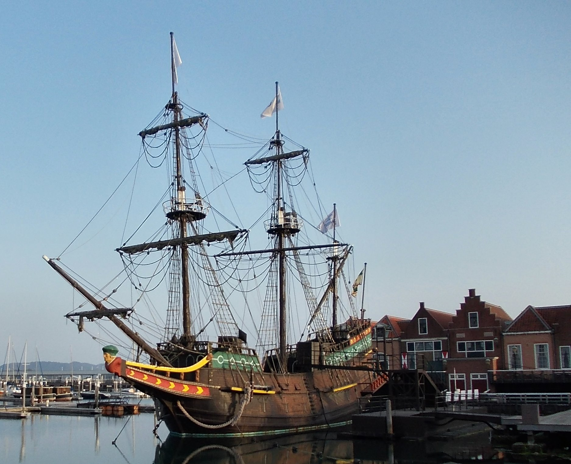 A replica of Dutch VOC ship in Huis Ten Bosch theme park, Nagasaki, Japan